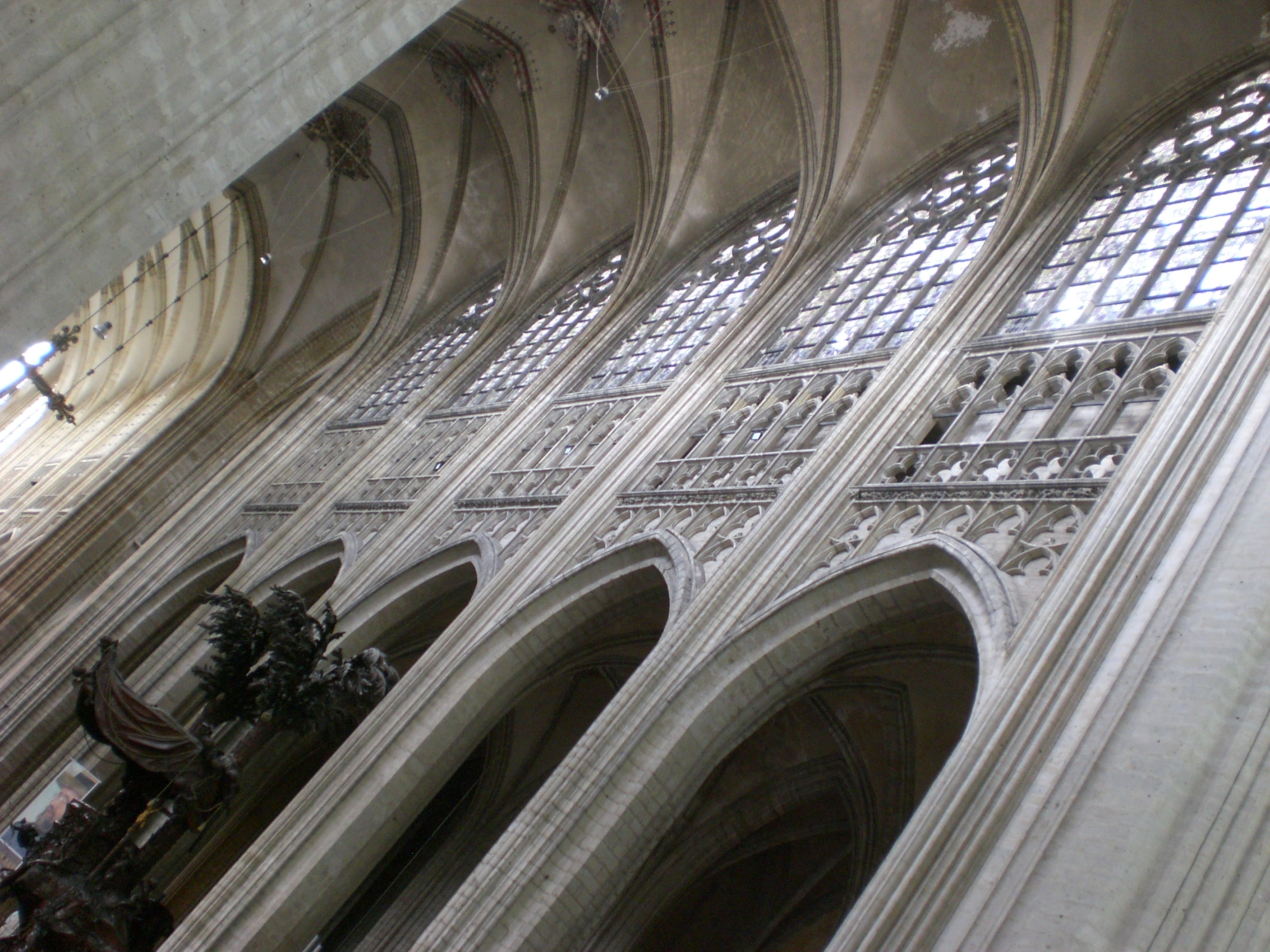 Leuven, St. Peter's, 1425-1503